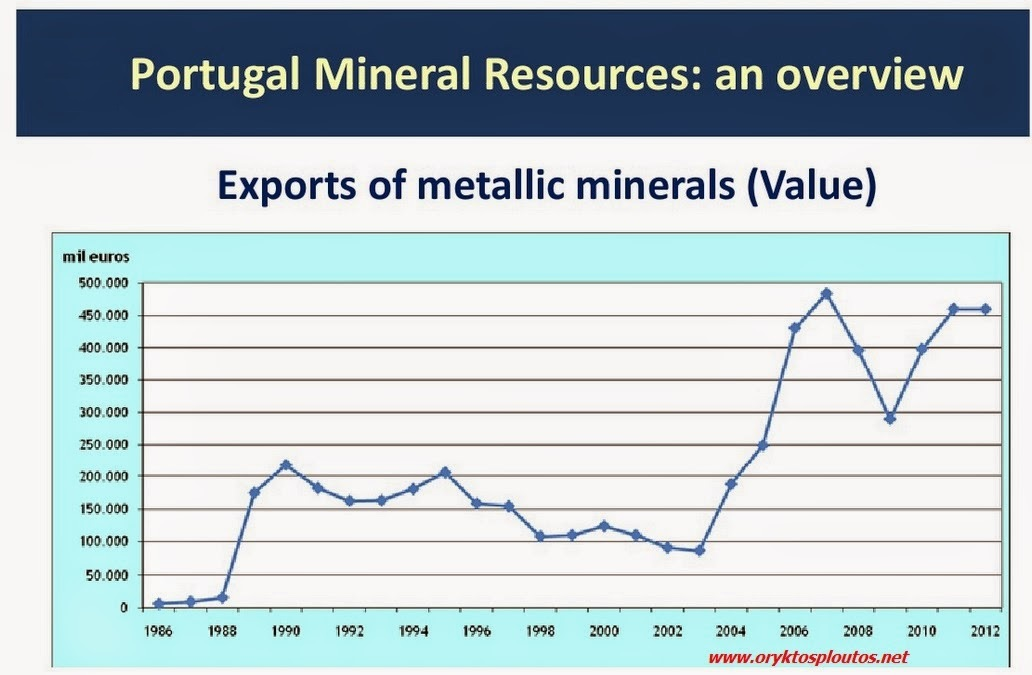 Portugal mineral resources exports 2002-2012